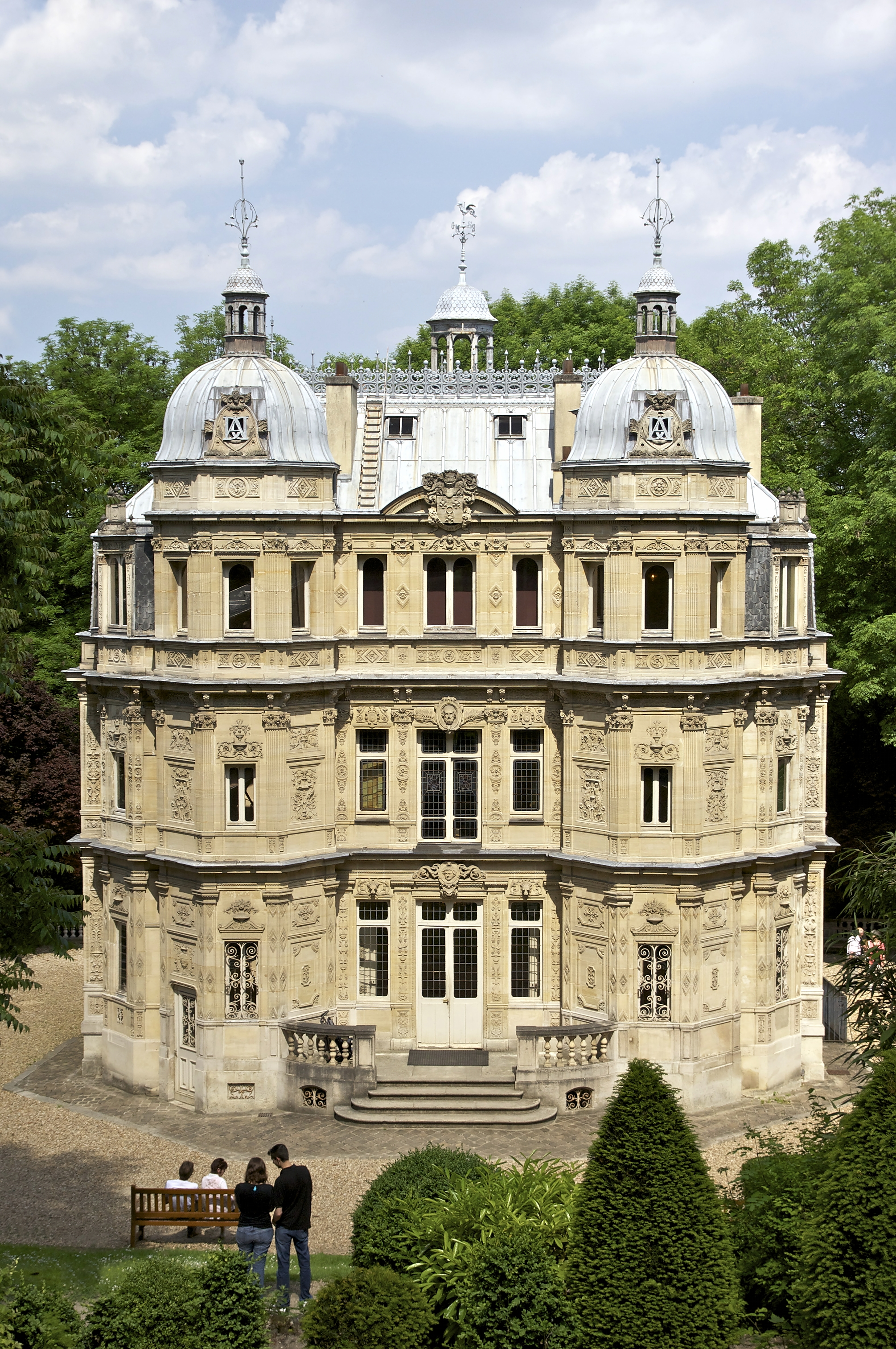 The castle of Monte-Cristo, the house of Alexandre Dumas, le Port-Marly, Yvelines, France.